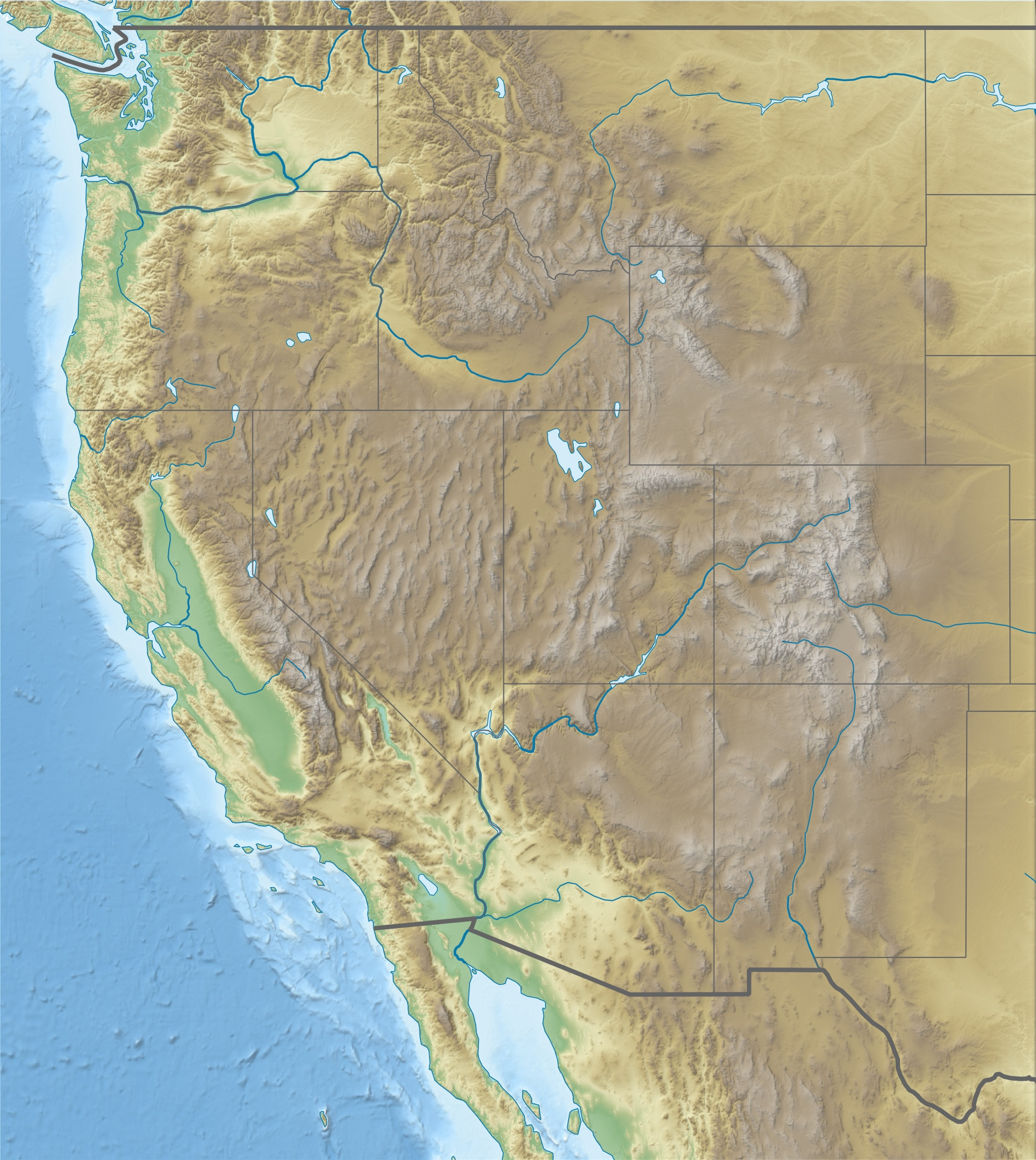 Physical location map of Western United States, USA Equirectangular projection, N/S stretching 130.0 %. Geographic limits of the map: N: 49.5° N S: 28.3° N W: 126.0° W E: 101.4° W